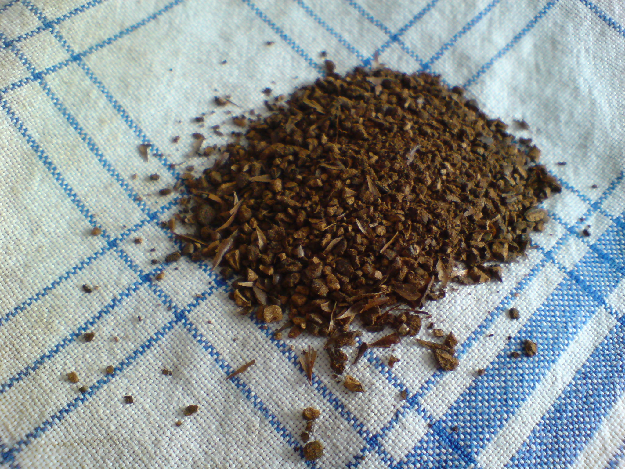 melta mixture